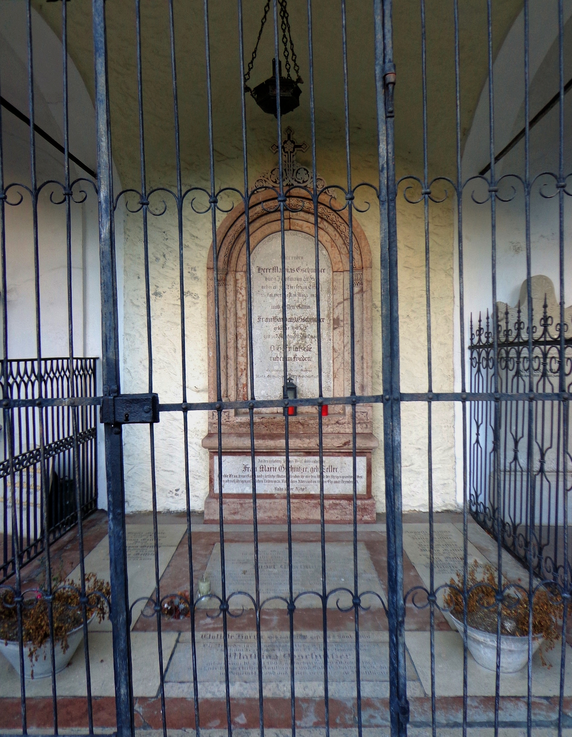 Crypt 28 (Petersfriedhof Salzburg): Gschnitzer and Gessele families